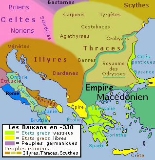 Historic map of Balkan peninsula, 330 b.c.